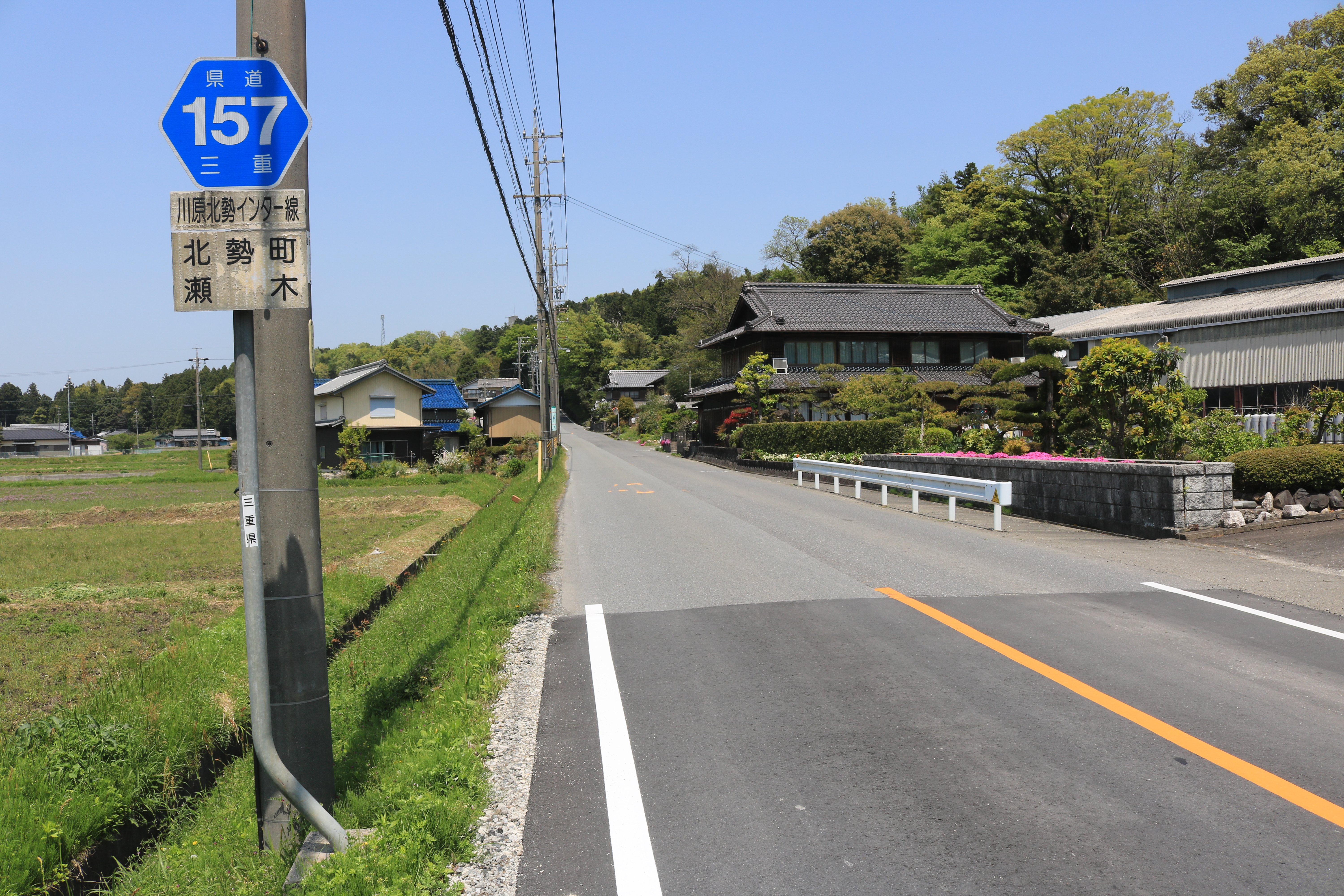 Mie Prefectural Road Route 157 in Segi, Hokusei-cho, Inabe, Mie prefecture, Japan.